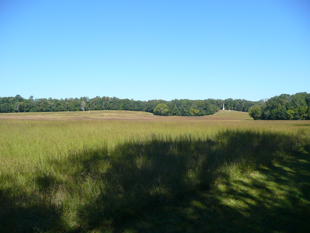 Photograph of Horseshoe Ridge at the Chickamauga battlefield.